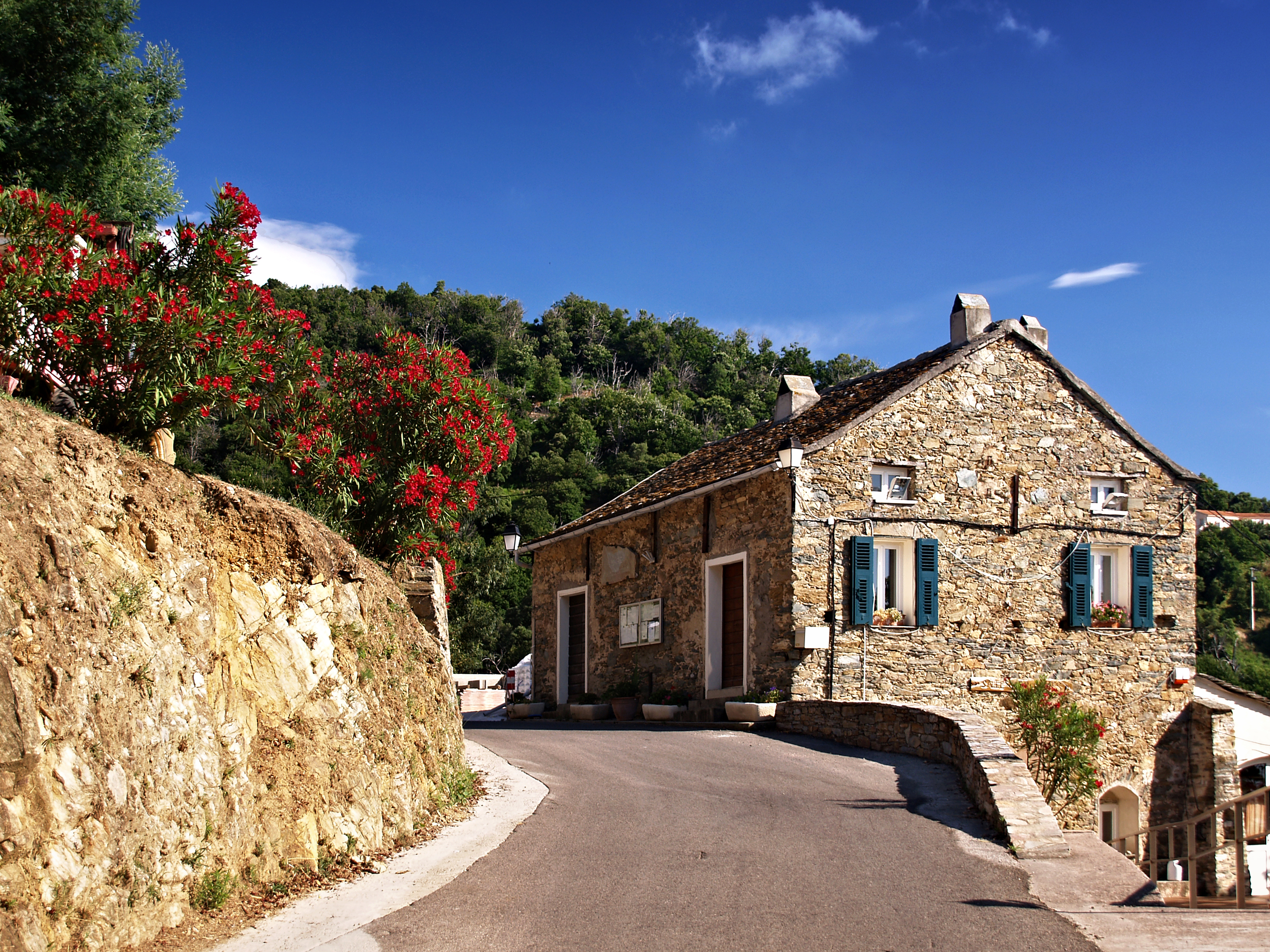 Poggio-d'Oletta (Corsica) - Town Hall